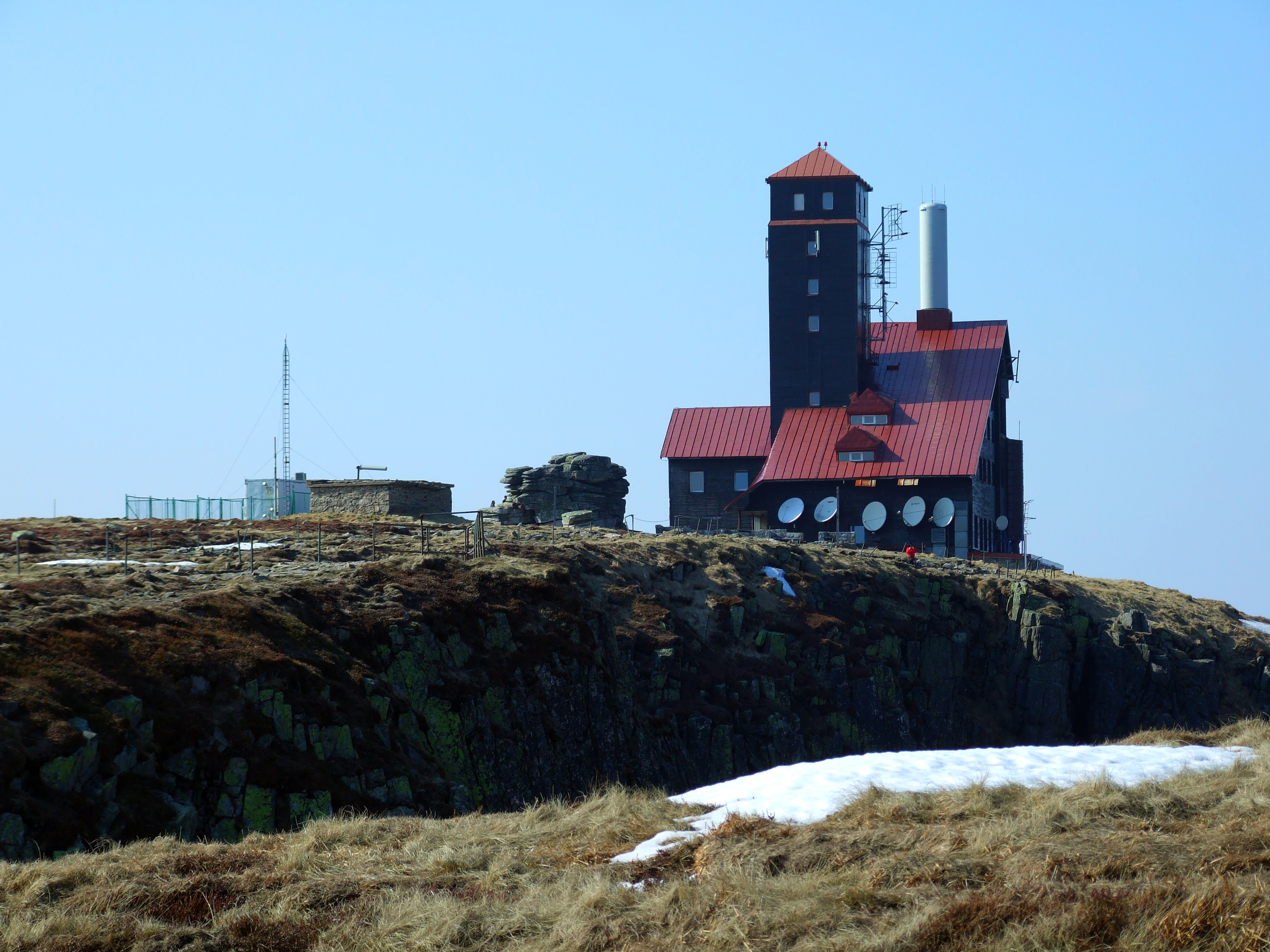 Sněžné jámy (Śnieżne Kotły, Schneegruben), Krkonoše, an object today in place of original Schneegrubenbaude. Elevation 1490m